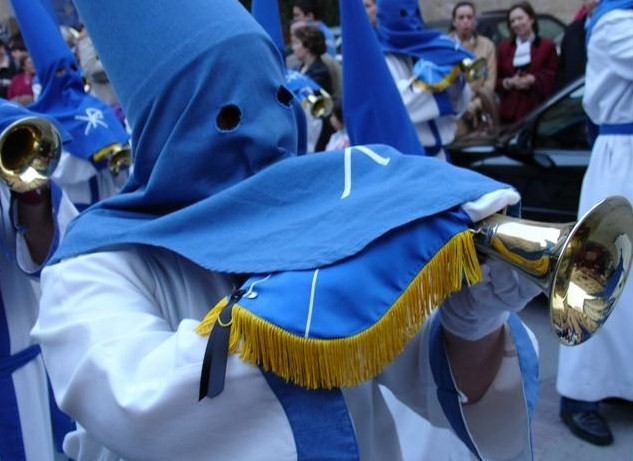 San Juan Evangelista (Borja)